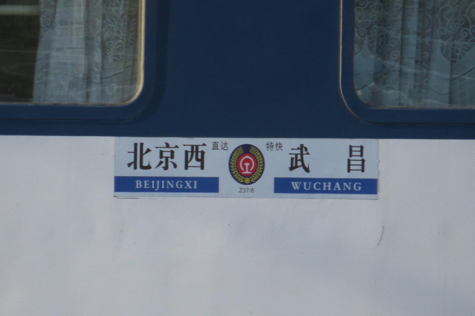 The king of trains of Wuhan Railway Bureau, 37/38 Beijing-Wuchang through train, is always a classic on this route.